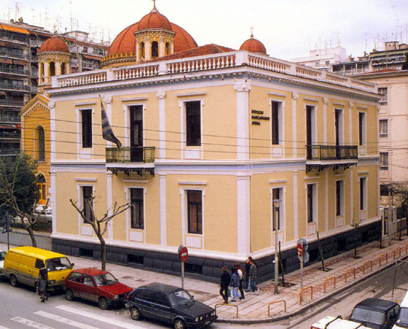 View from outside, image from the Museum of the Macedonian Struggle, Thessaloniki, Central Macedonia, Greece